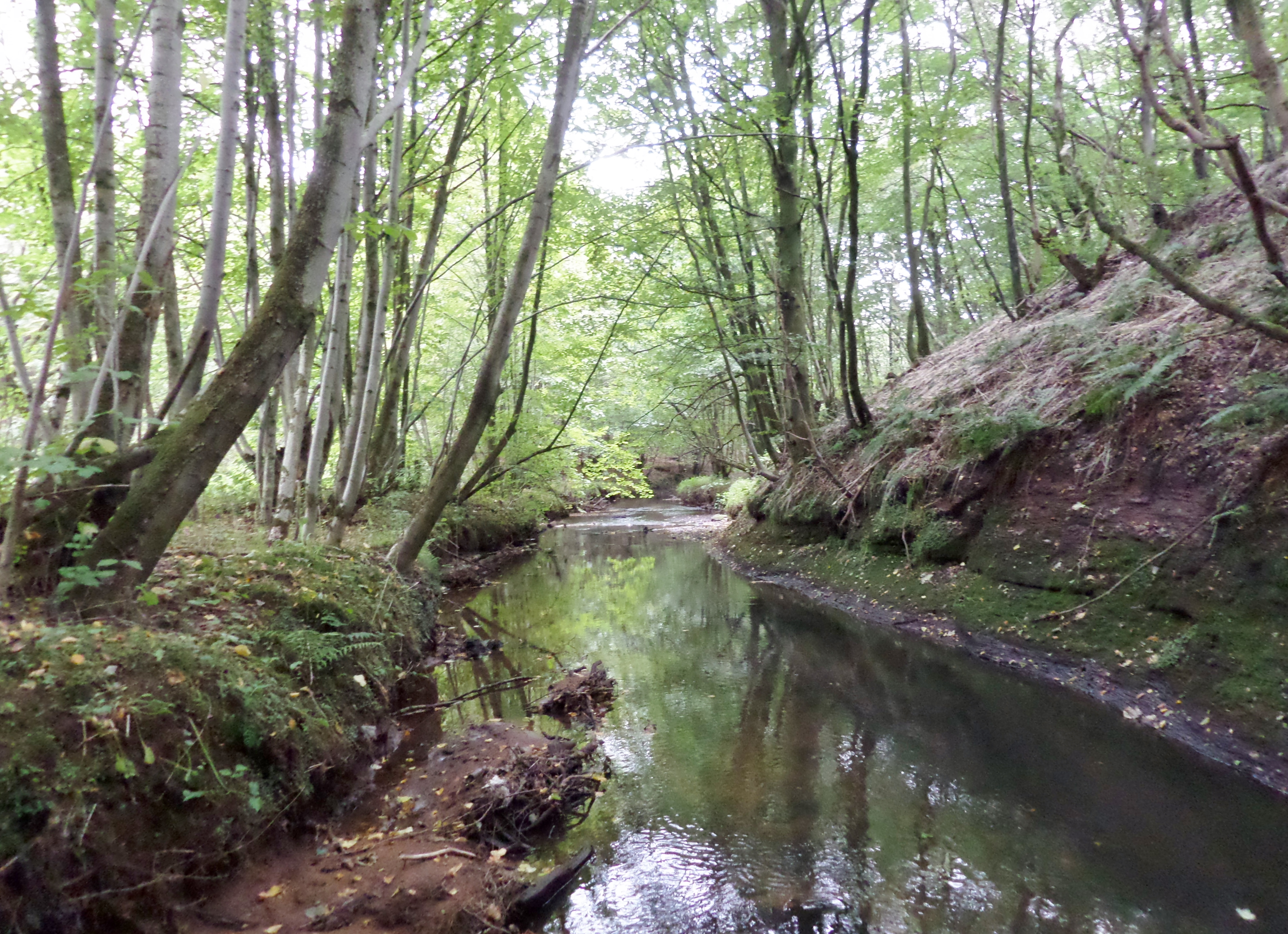 The Windy Gill, Water of Fail, Tarbolton, South Ayrshire, Scotland. Possibly part of the Deer Hay Yard.